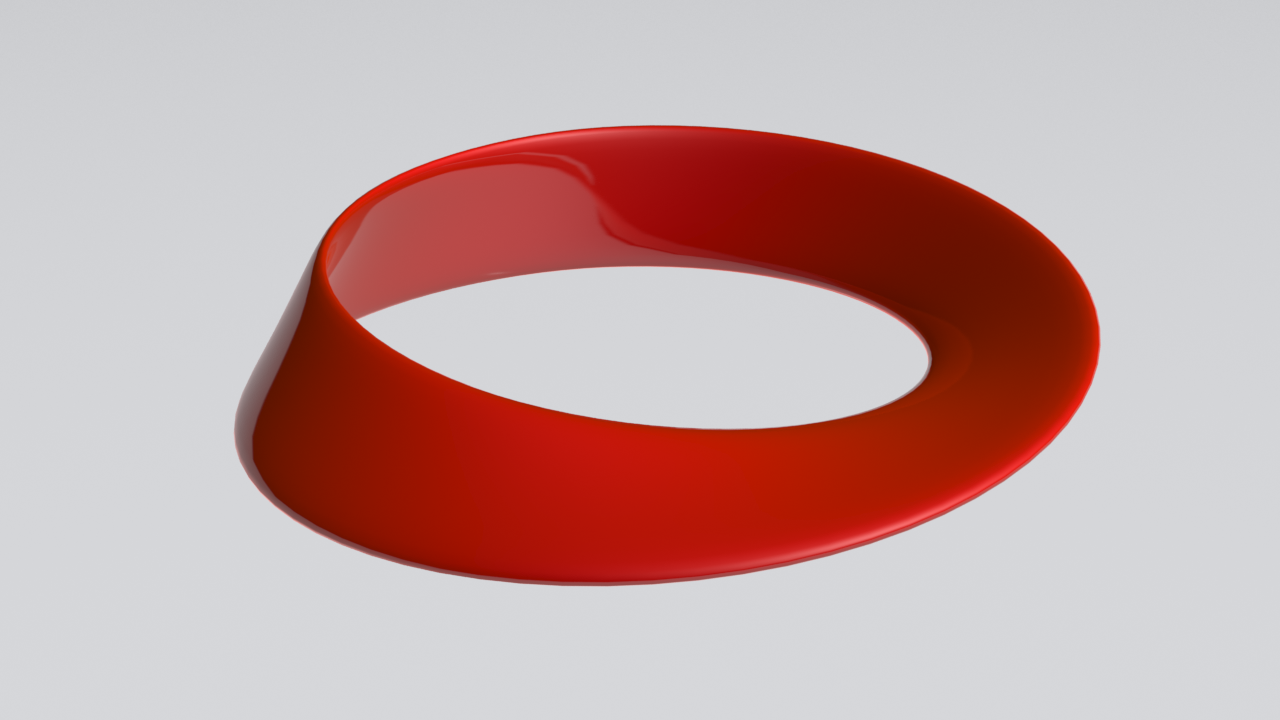 3D Rendering of a Mobius Strip